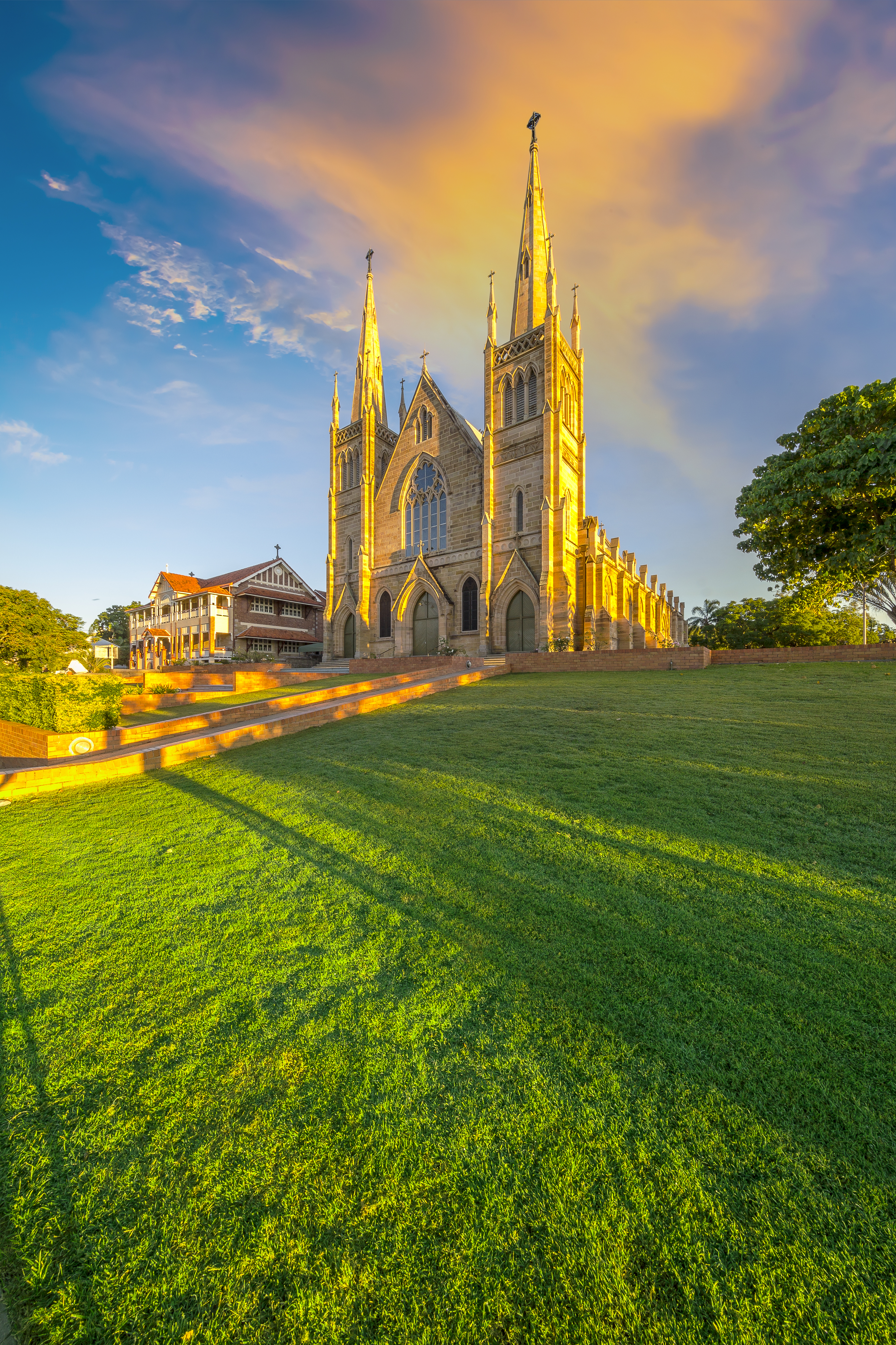 St Mary's Cathedral, Ipswich